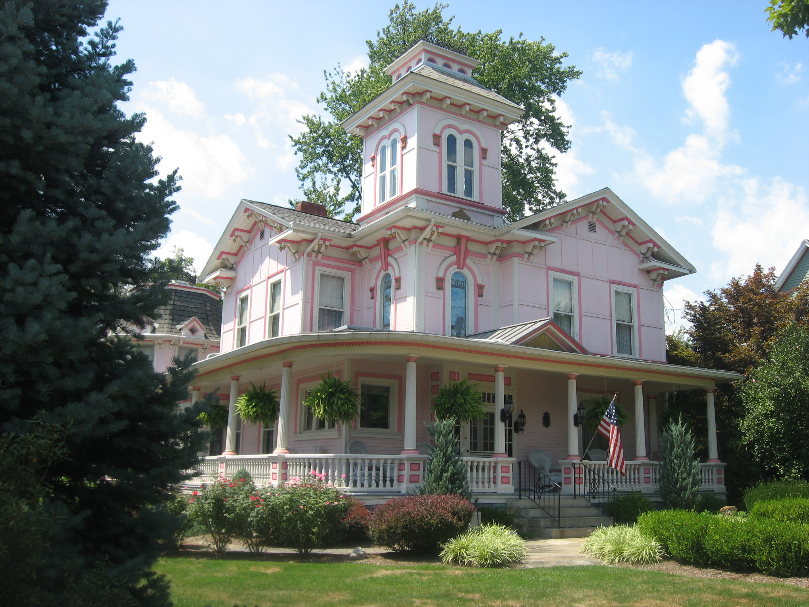 Front and southern side of the Liggett-Freedlander House, located at 408 N. Bever Street in Wooster, Ohio, United States. Built in 1861, it is listed on the National Register of Historic Places.